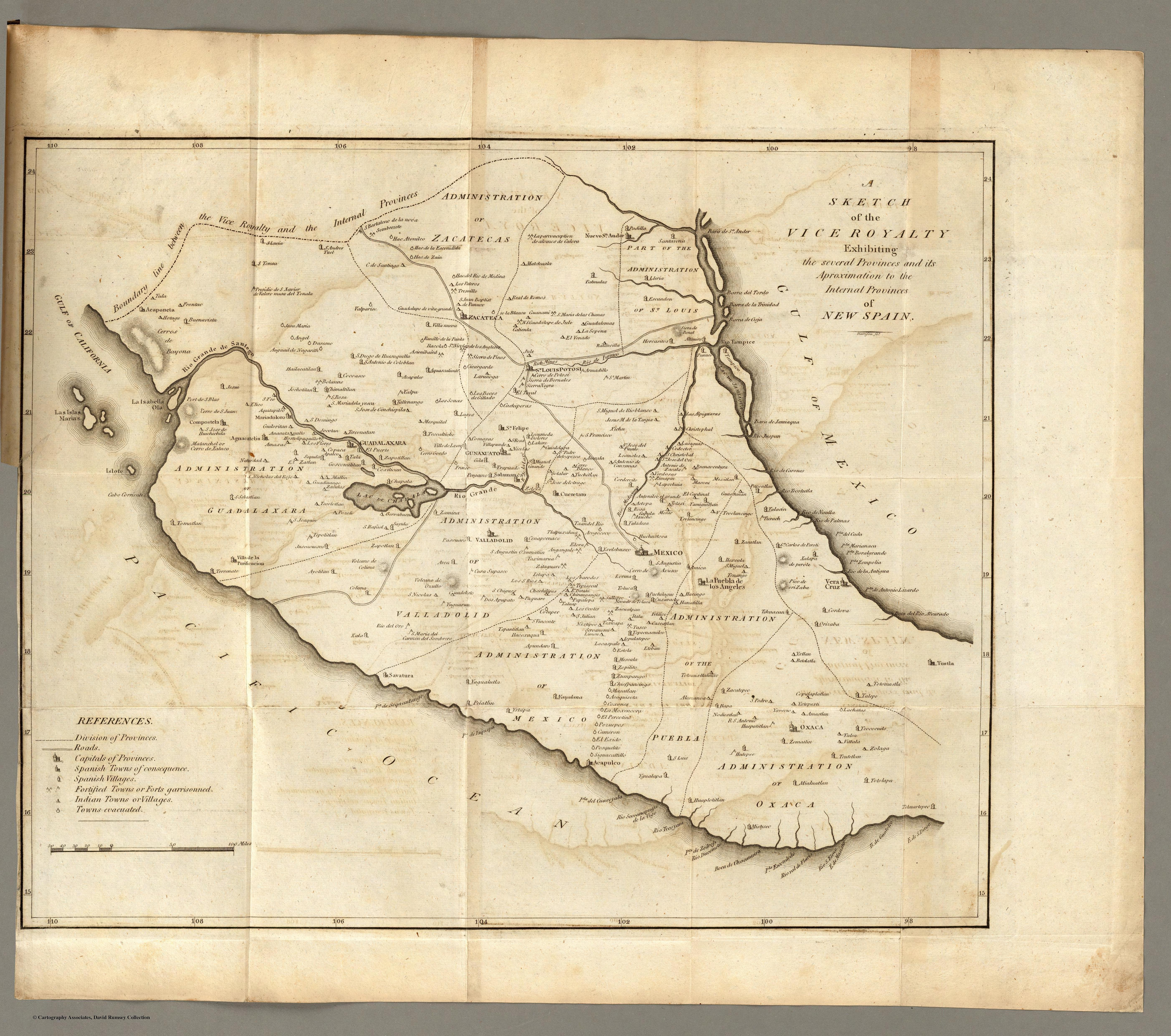 An Account of Expeditions to the Sources of the Mississippi, and Through the Western Parts of Louisiana, to the Sources of the Arkansaw, Kans, La Platte, and Pierre Jaun, Rivers; ... During the Years 1805, 1806, and 1807. And a Tour Through the Interior Parts of New Spain, When Conducted Through These Provinces, by order of The Captain-General, in the year 1807. By Major Z.M. Pike. Illustrated by Maps and Charts. Philadelphia: Published by C. & A. Conrad & Co. No. 30, Chesnut Street. Somervell & Conrad, Petersburgh. Bonsal, Conrad, & Co. Norfolk, and Fielding Lucas, Jr. Baltimore. John Binns, Printer....1810.